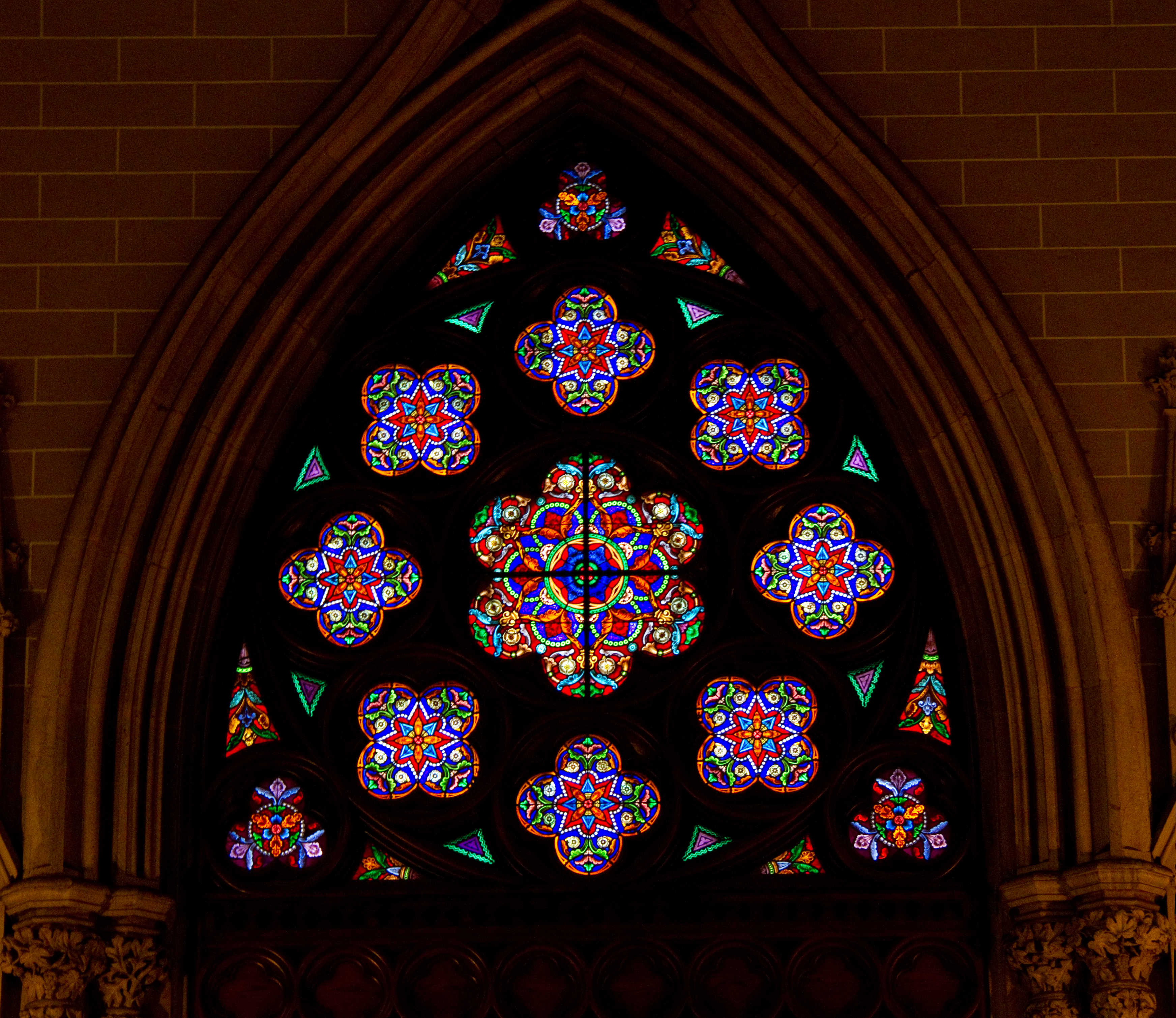 St Patricks Cathedral 4